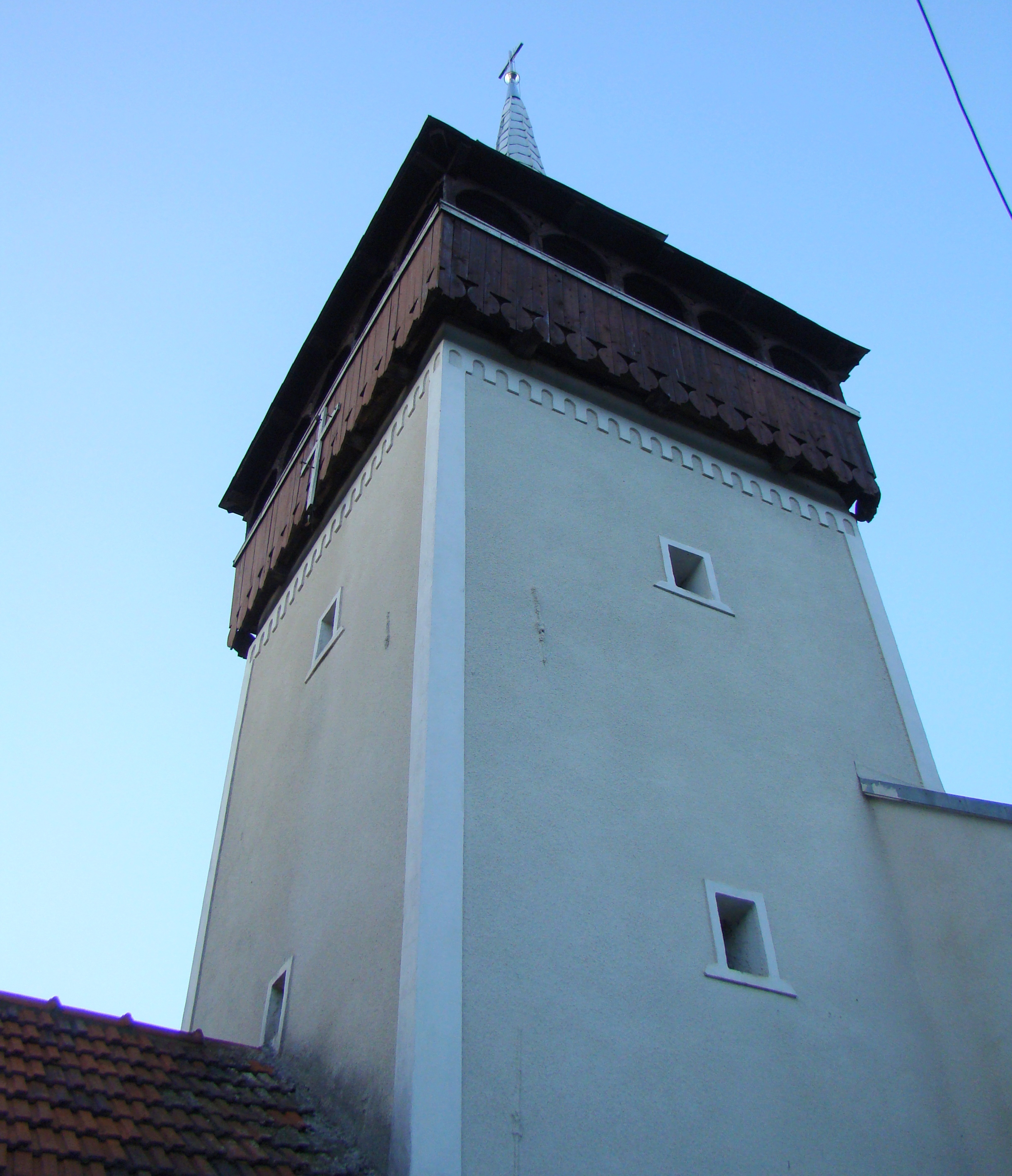 Orthodox church of the Pious Saint Paraskeva in Meteș, Alba county, Romania